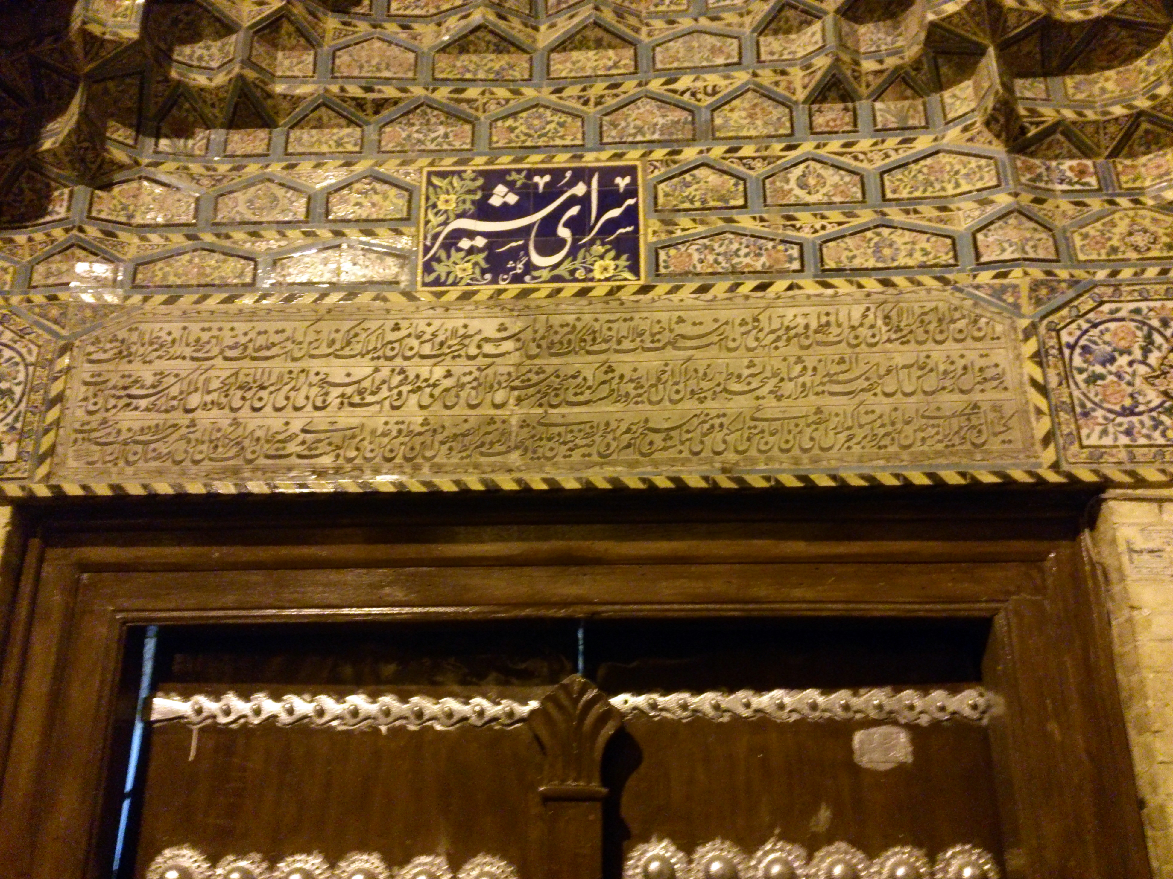 The Main Entrance of Saraye Moshir Bazaar located in Sothern of Vakil Bazaar in Shiraz,Iran. Persian Calligraphy etched on a hard stone is shown beneath the Portico